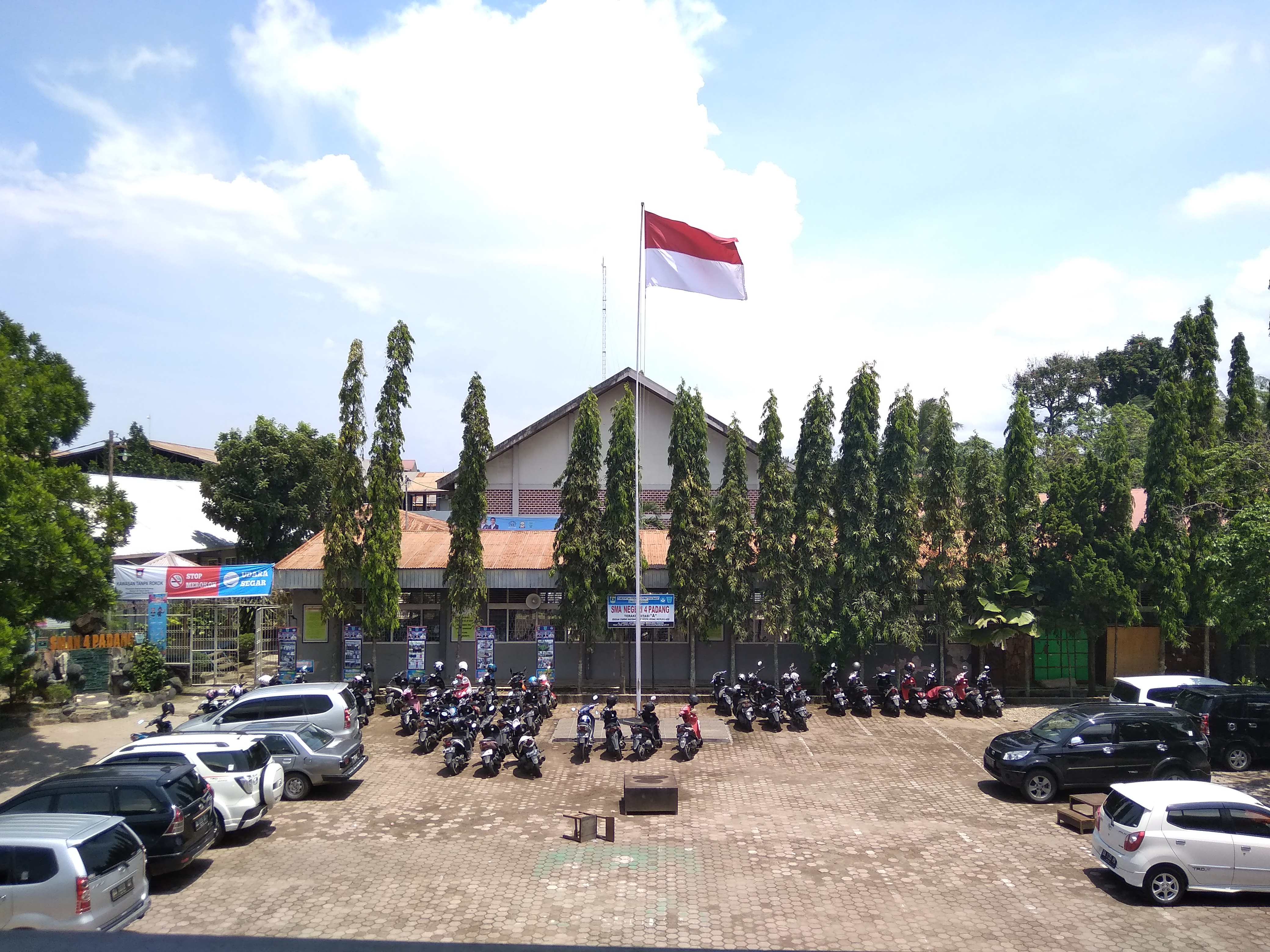 Building of Senior High School 4 Padang at Lubuk Begalung.